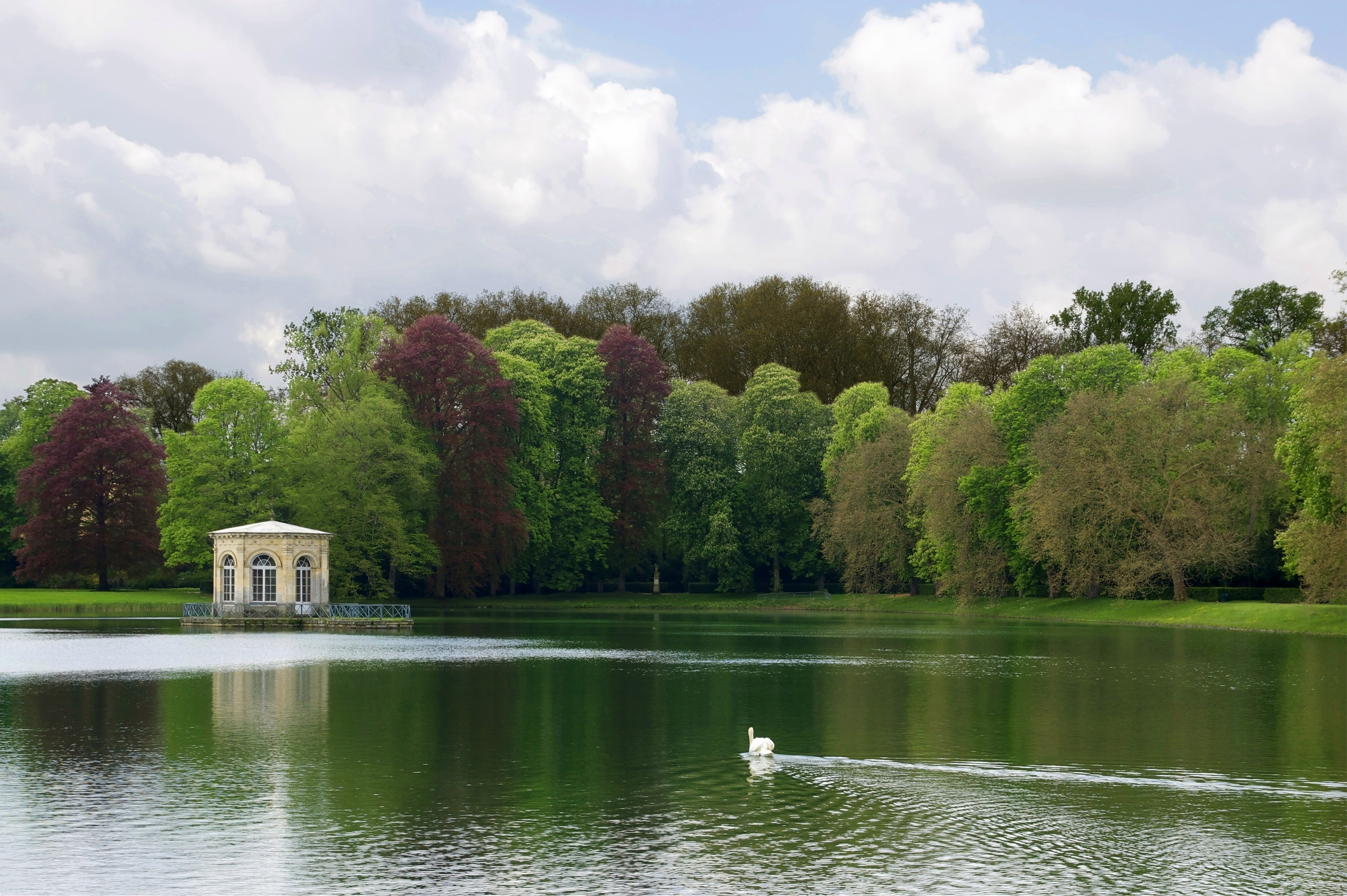 The "Carp Pond" (étang des Carpes), with the little octagonal building, parks of the castle of Fontainebleau, Seine-et-Marne, France.